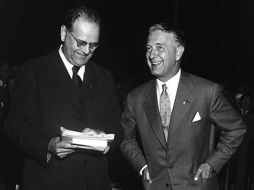 Swedish Prime Minister Tage Erlander (left) and Bertil Ohlin after an election debate in Vasaparken, Stockholm 1954.